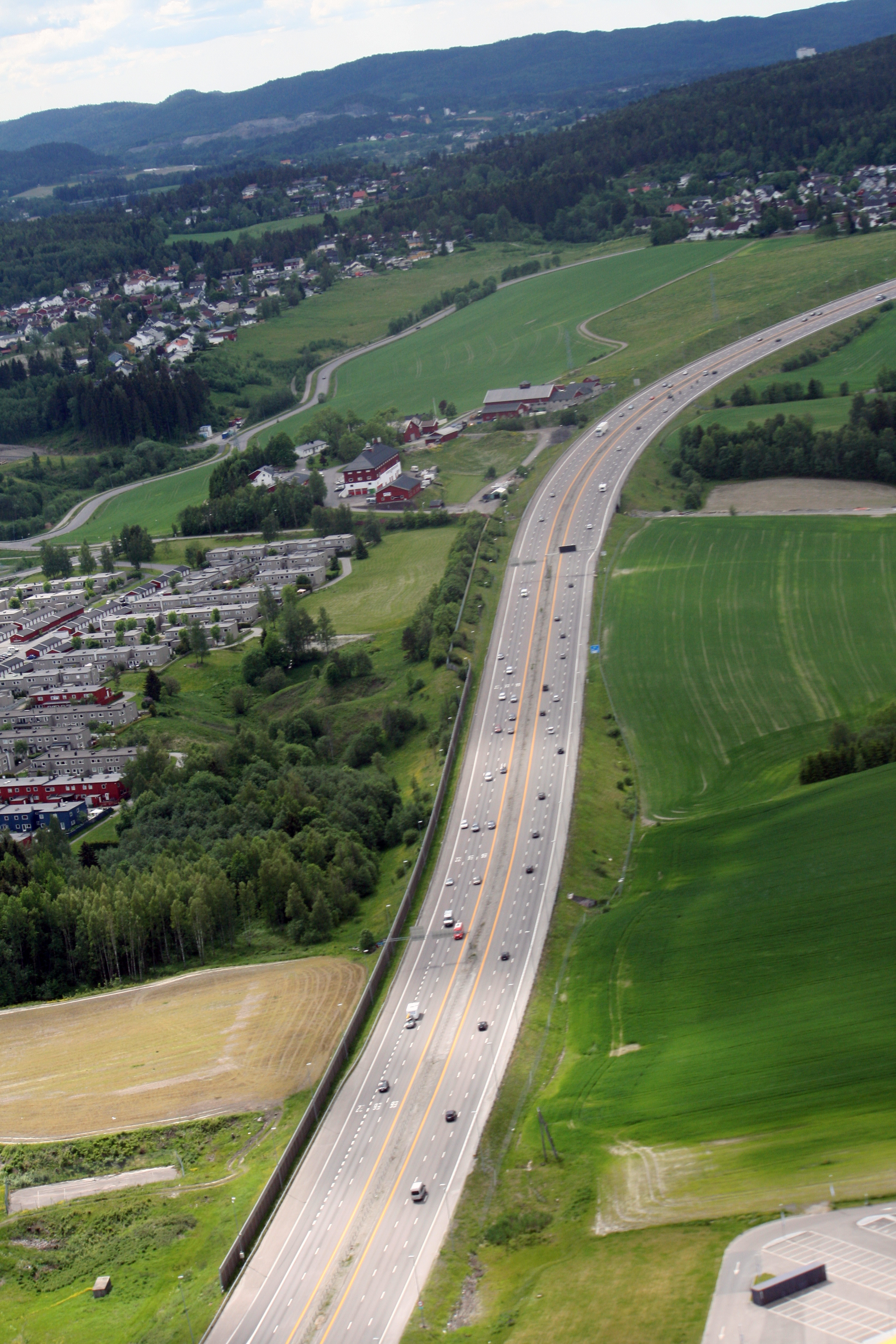 Aerial photograph from June 14th, 2015.